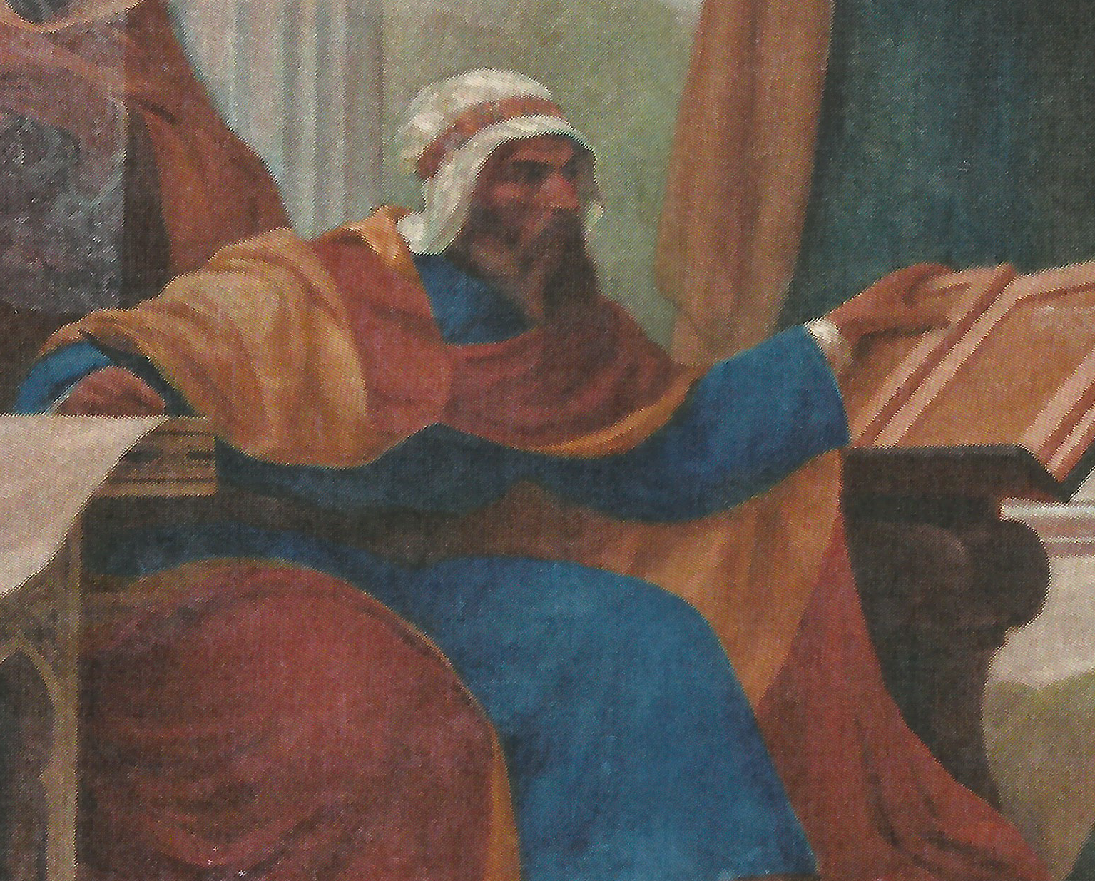 "Arabic Medicine" (c. 1906), by Veloso Salgado